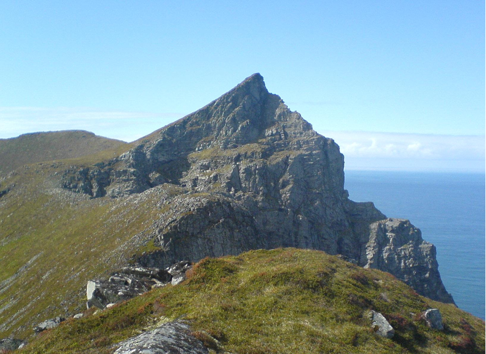 The mountain Hornet on Værøy, Norway.